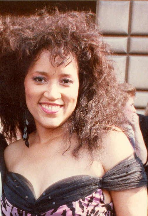 Jackee Harry at the 40th Annual Primetime Emmy Awards.